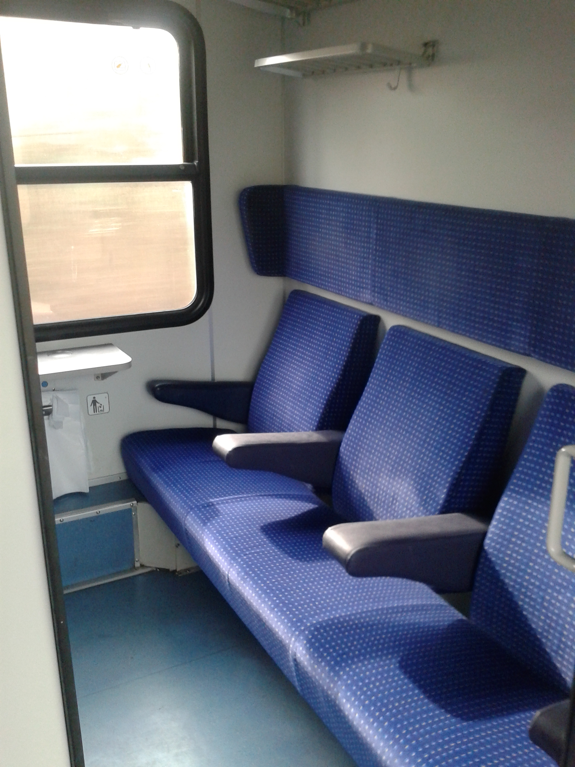 Second class compartment in a German regional train.